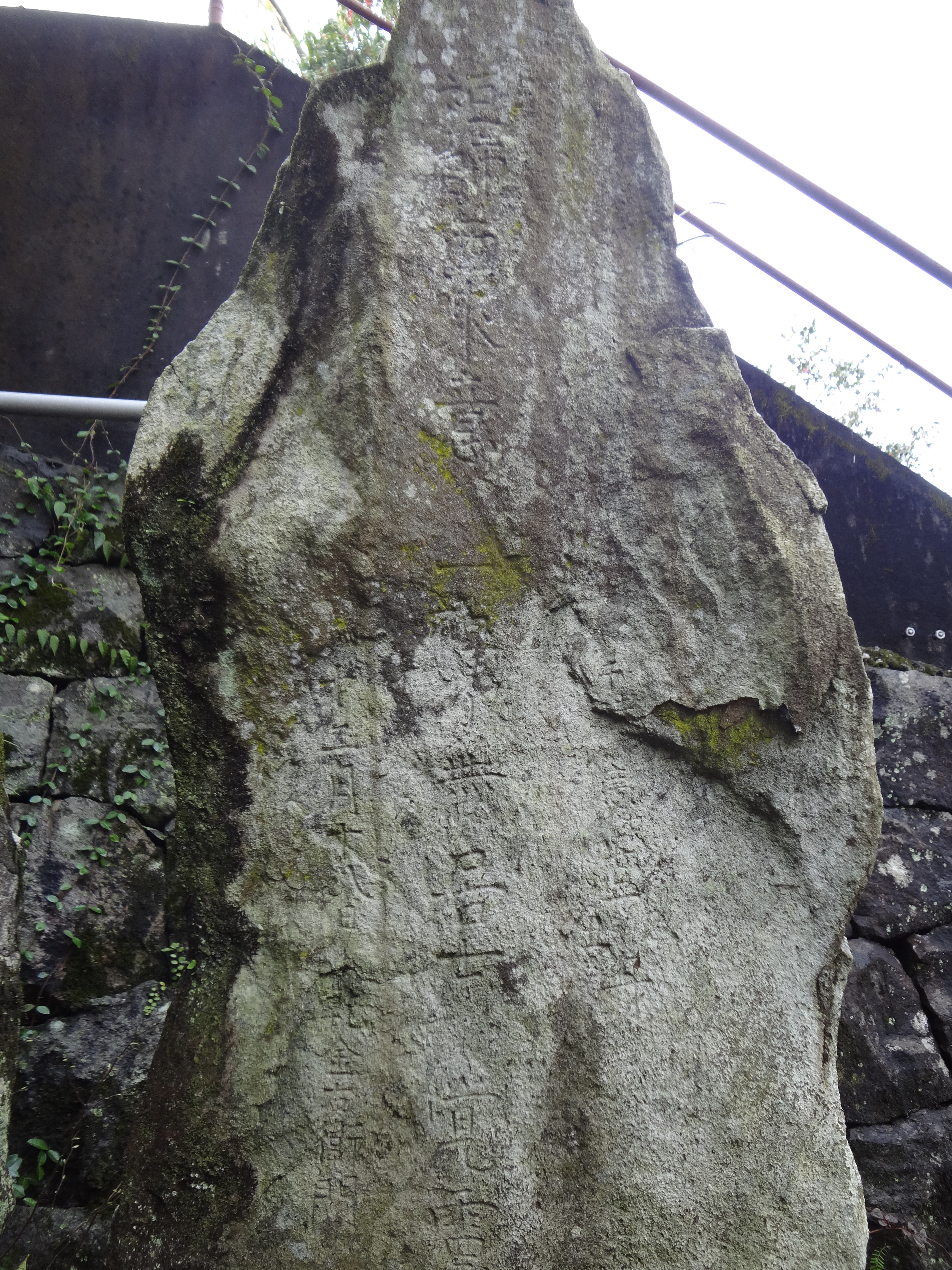 The tomb of INUI(ITAGAKI) MASAYUKI ( -1650). Adopted child of INUI(ITAGAKI) MASANOBU. The second son of NAGAHARA KATSUAKI(YAMAUCHI GYOBU). 6th Great-Grandfather of ITAGAKI TAISUKE.